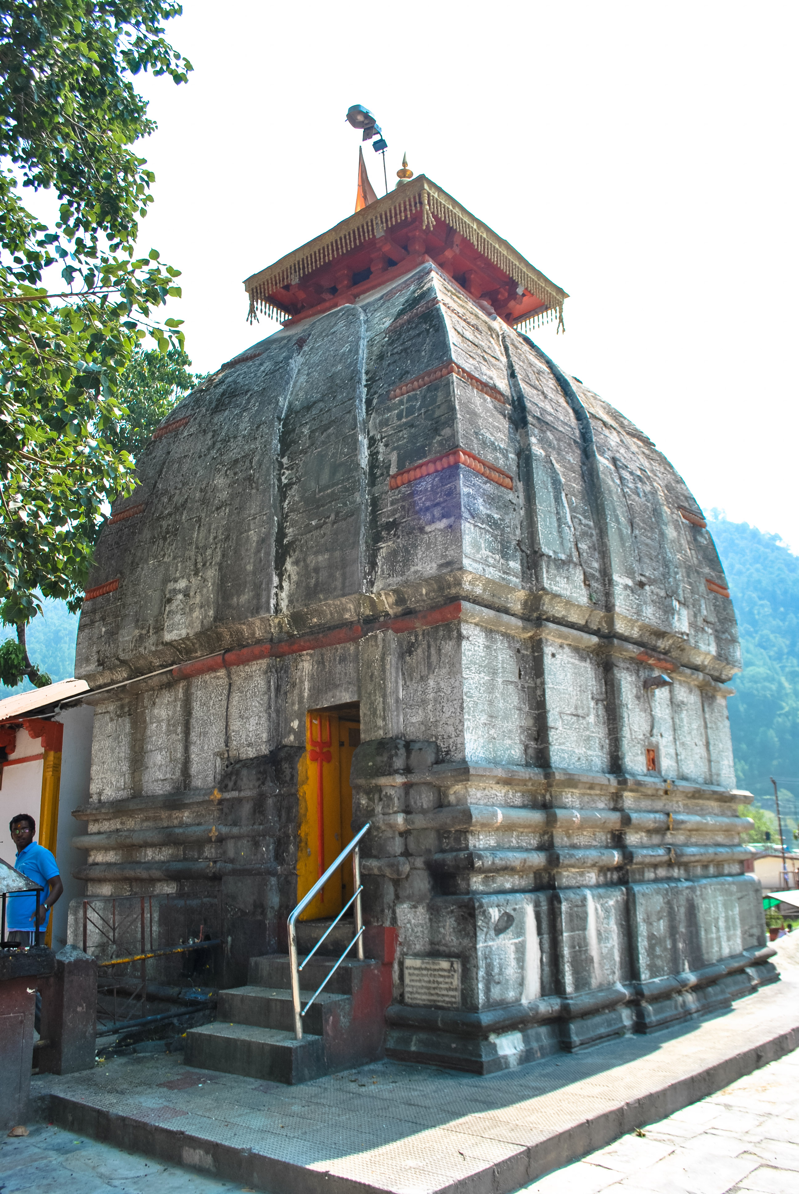 This picture was taken during Kalindi khal trek.